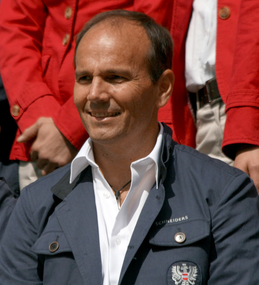 Thomas Farnik during preparations for a group picture of the Austrian team for the 2012 Summer Olympics in London at the inner court of Hofburg Palace in Vienna.